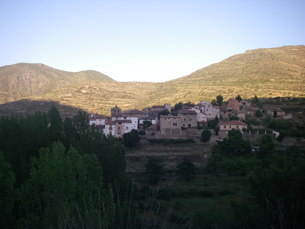 View of Peroblasco (La Rioja, Spain)